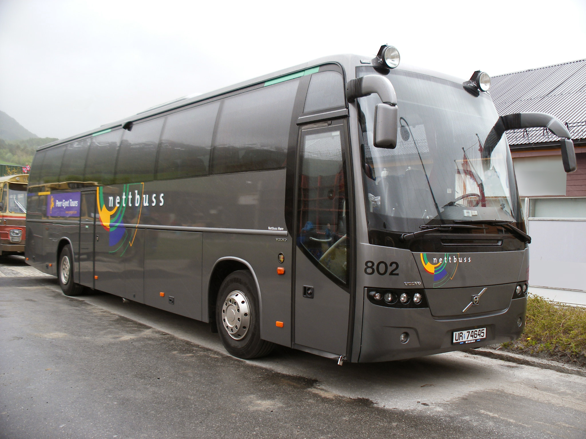 Bus from Norway. Volvo 9700 bus (reg. UR 74645, #50802). Nettbuss Møre.